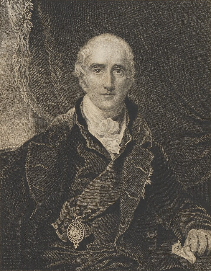 Richard Wellesley, 1st Marquess Wellesley, K.G.&.